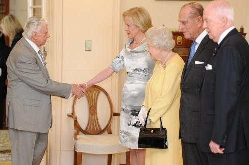 Bart Cummings is presented to Quentin Bryce (Governor-General of Australia) and Queen Elizabeth II, alongside Prince Philip, Duke of Edinburgh and Michael Bryce, at Government House, Canberra.